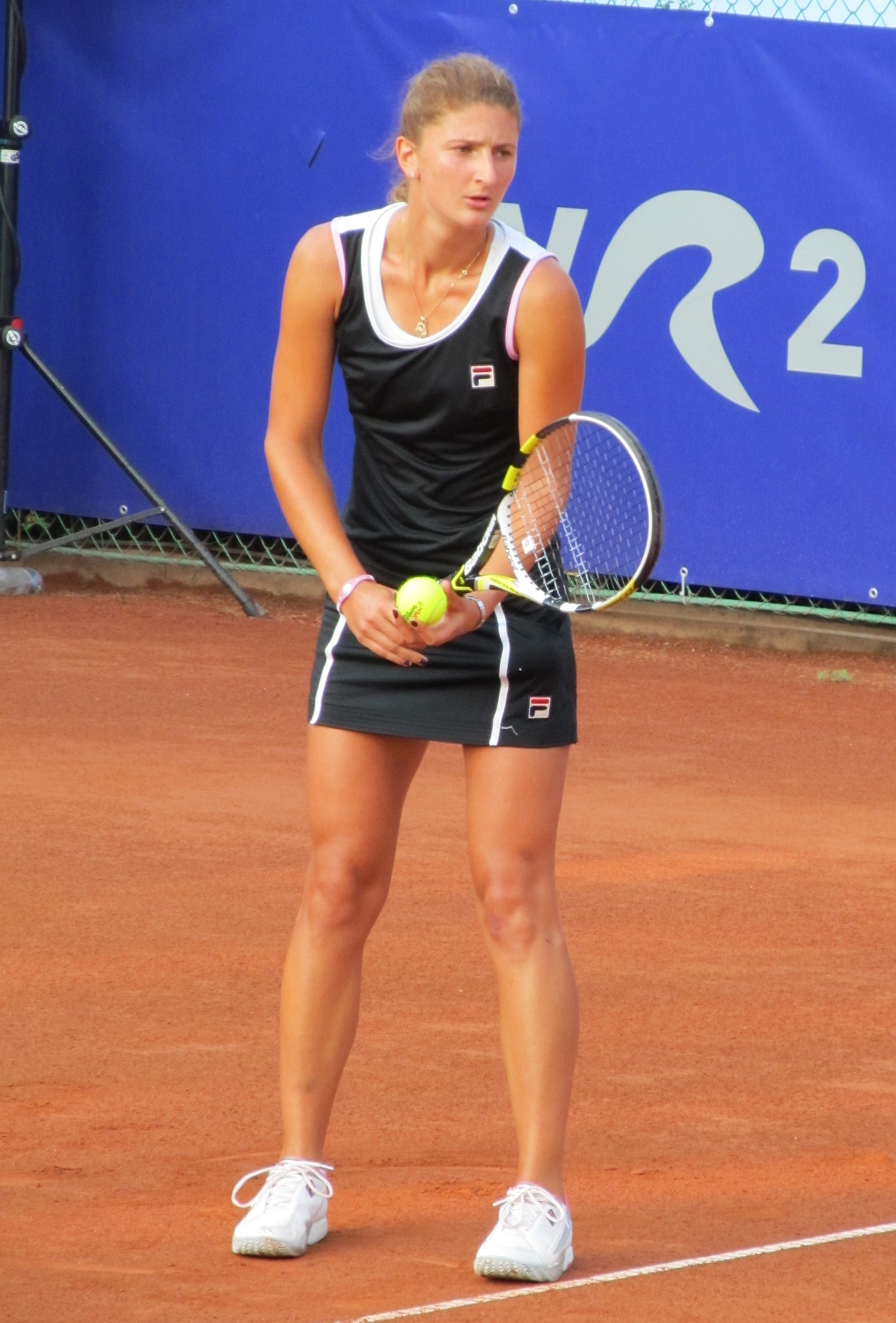 Irina-Camelia Begu preparing to serve at the 2011 BCR Open Romania Ladies during her first round match against Corinna Dentoni